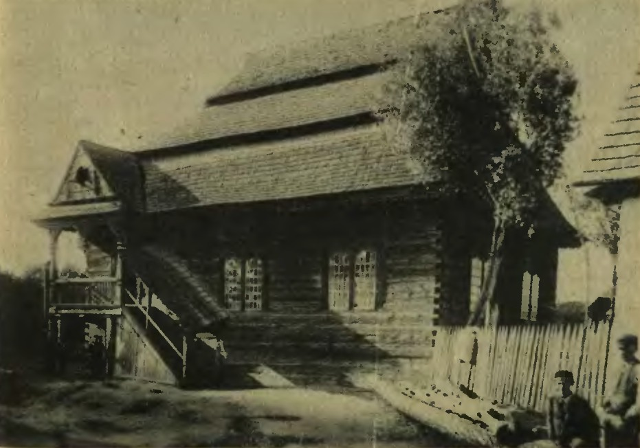 Synagogue in Lipsko, view from South